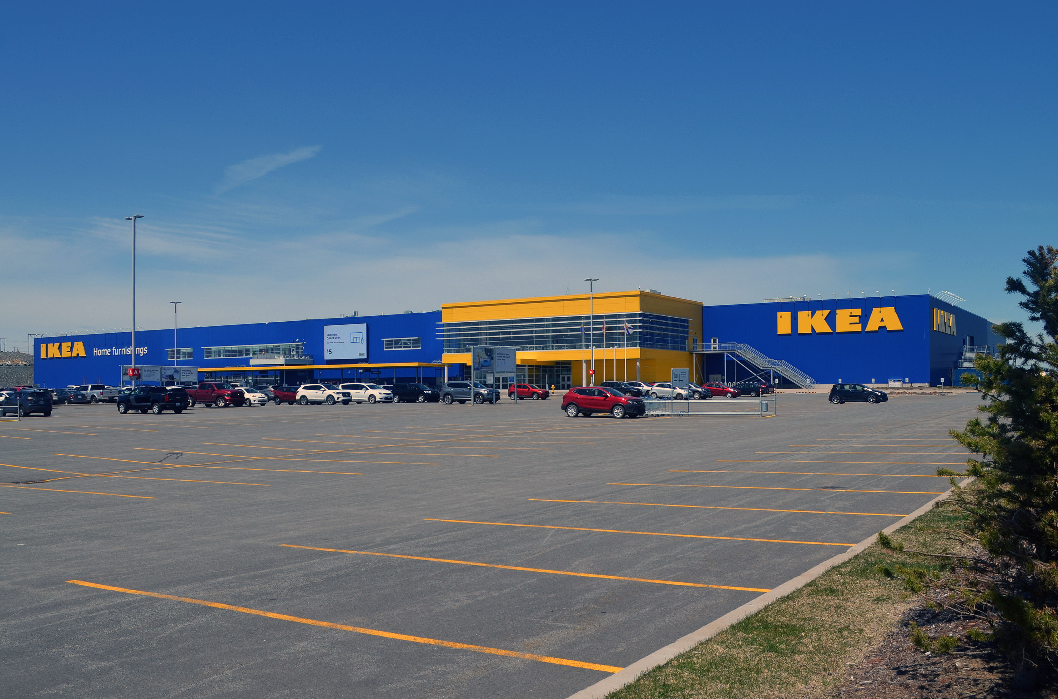 Exterior of the IKEA Halifax store in Dartmouth, Nova Scotia, Canada.